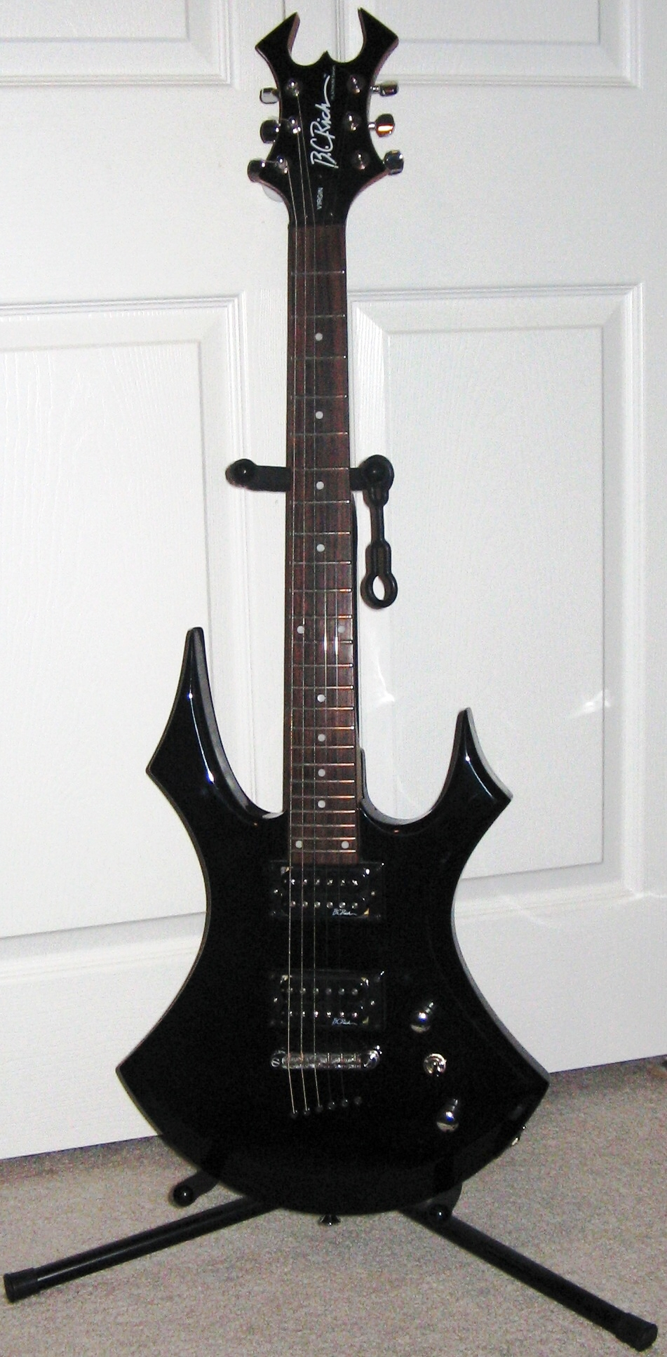 Image of a BC Rich Virgin Platinum Series guitar. Taken on March 27, 2006 in my room by Wikioogle=world take over.